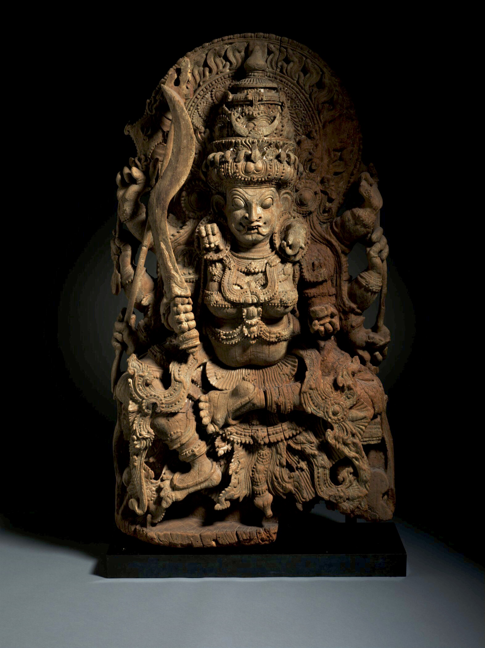 India, Kerala, circa 17th century Sculpture Jackwood with traces of paint Gift of Dr. S. Sanford and Mrs. Charlene S. Kornblum (M.2011.5) South and Southeast Asian Art Currently on public view: Ahmanson Building, floor 4